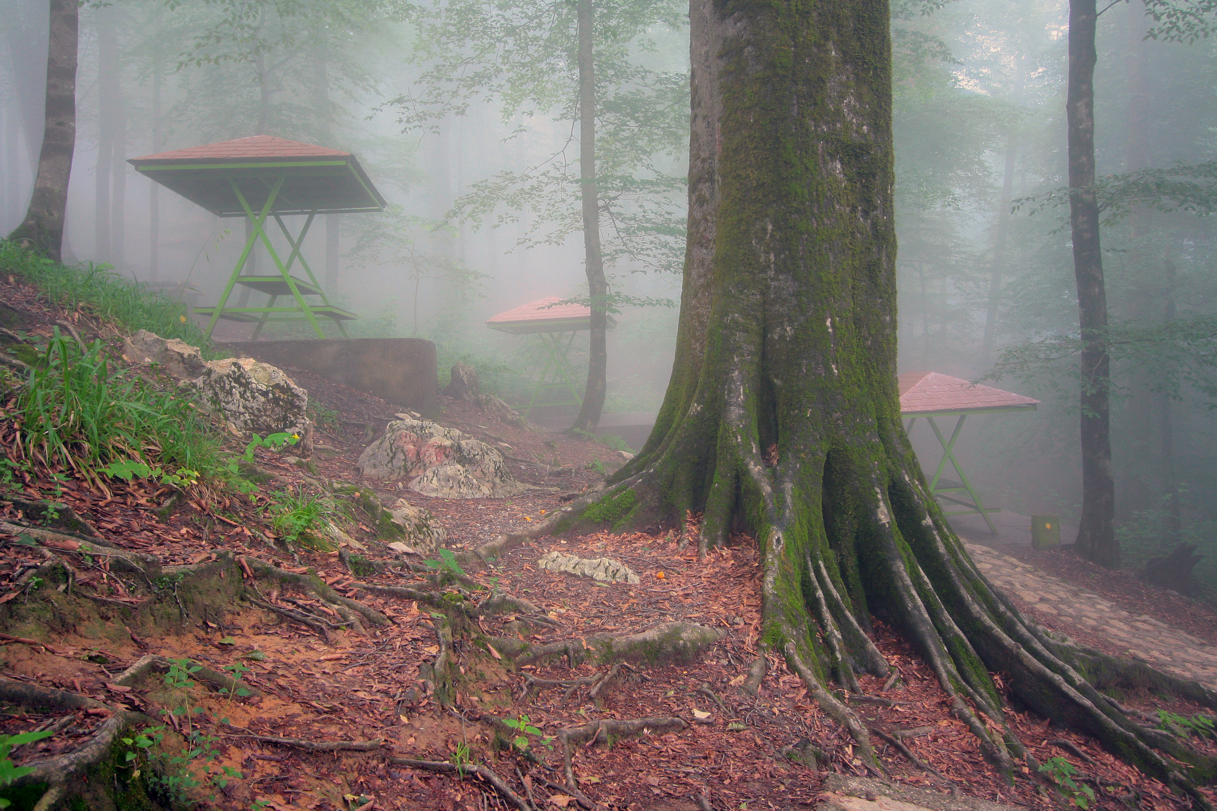 Shahrak-e Namak Abrud (Persian: شهرك نمك ابرود, also Romanized as Shahrak-e Namak Ābrūd; also known as Namak Abrood, Namak Ābrūd, Namak Ābrūd Sar, and Namakrūd Sar)is a village in Kelarestaq-e Gharbi Rural District, in the Central District of Chalus County, Mazandaran Province, Iran. At the 2006 census, its population was 354, in 71 families.